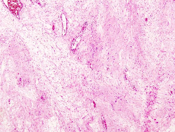 Histopathologic image of schwannoma of the subcutis, representing an Antoni B type. The same case as shown in a file "Subcutaneous_schwannoma_(1)_Antoni_B.jpg". H & E stain.